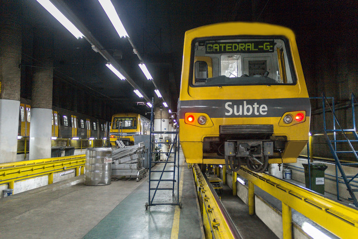 Line D Buenos Aires Underground Alstom trains at Congreso de Tucuman workshop